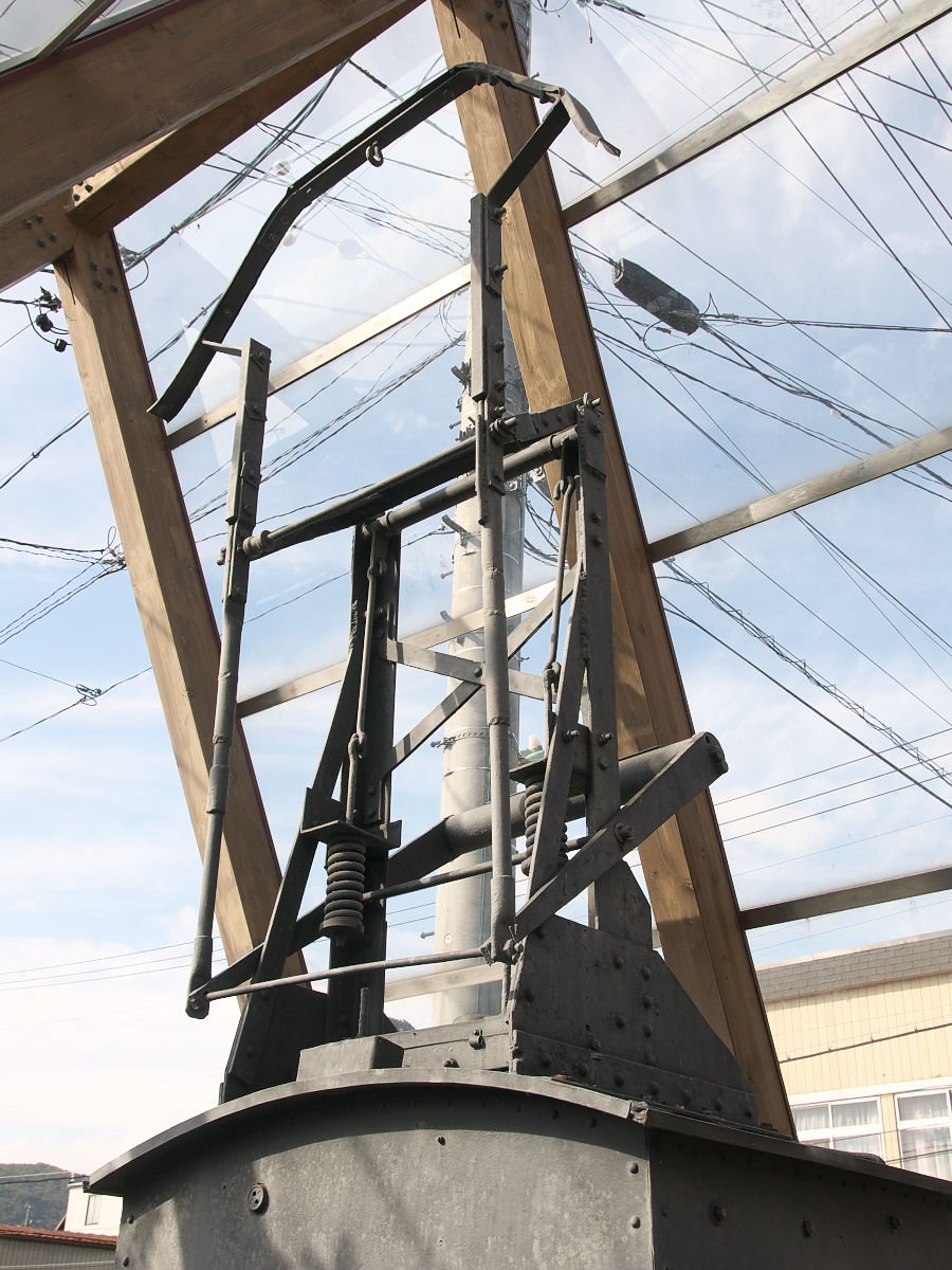 Pantograph of narrow gage locomotive in Kusakaru Electric Railway.